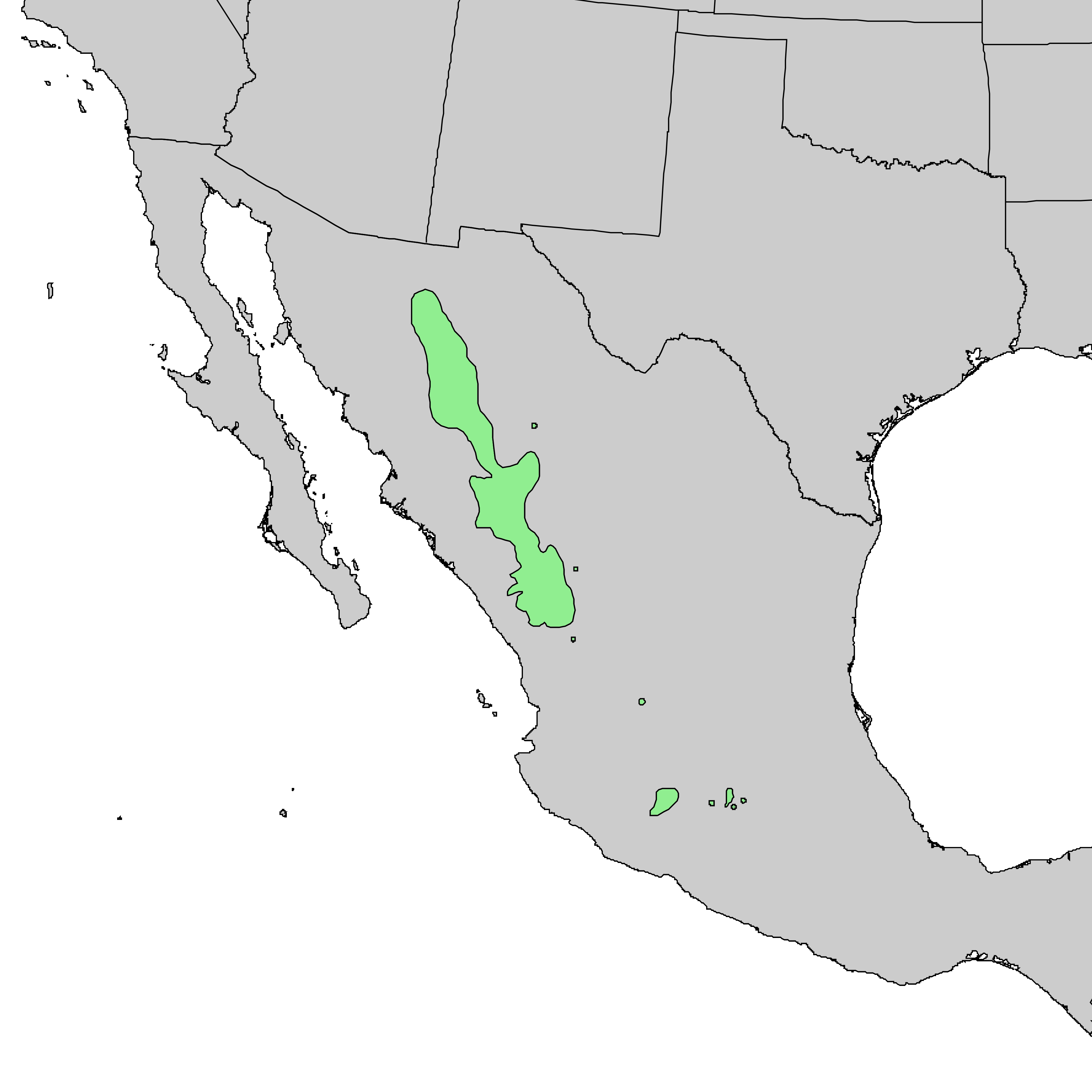 Natural distribution map for Pinus durangensis